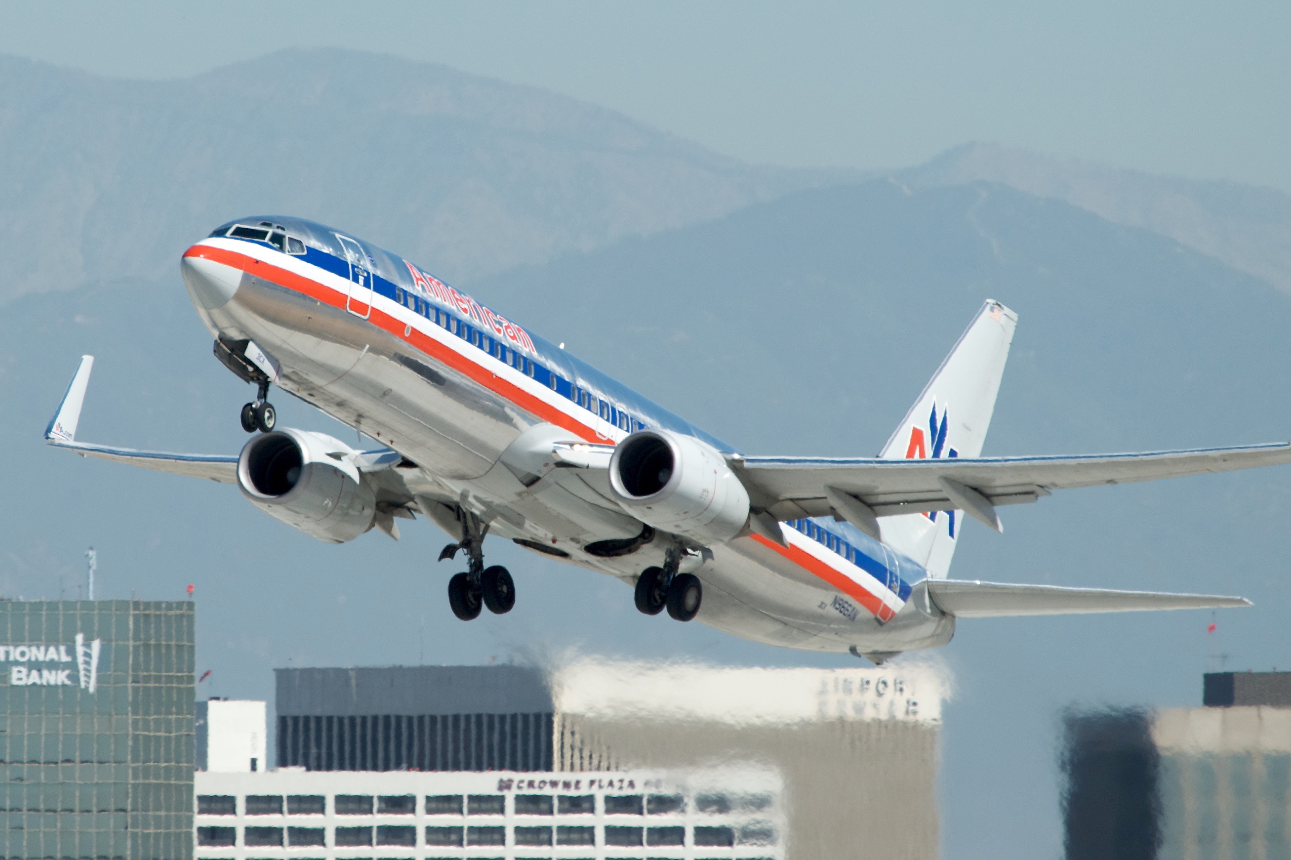 American Airlines Boeing 737-800 taking off from Los Angeles International Airport (LAX) in October 2007.